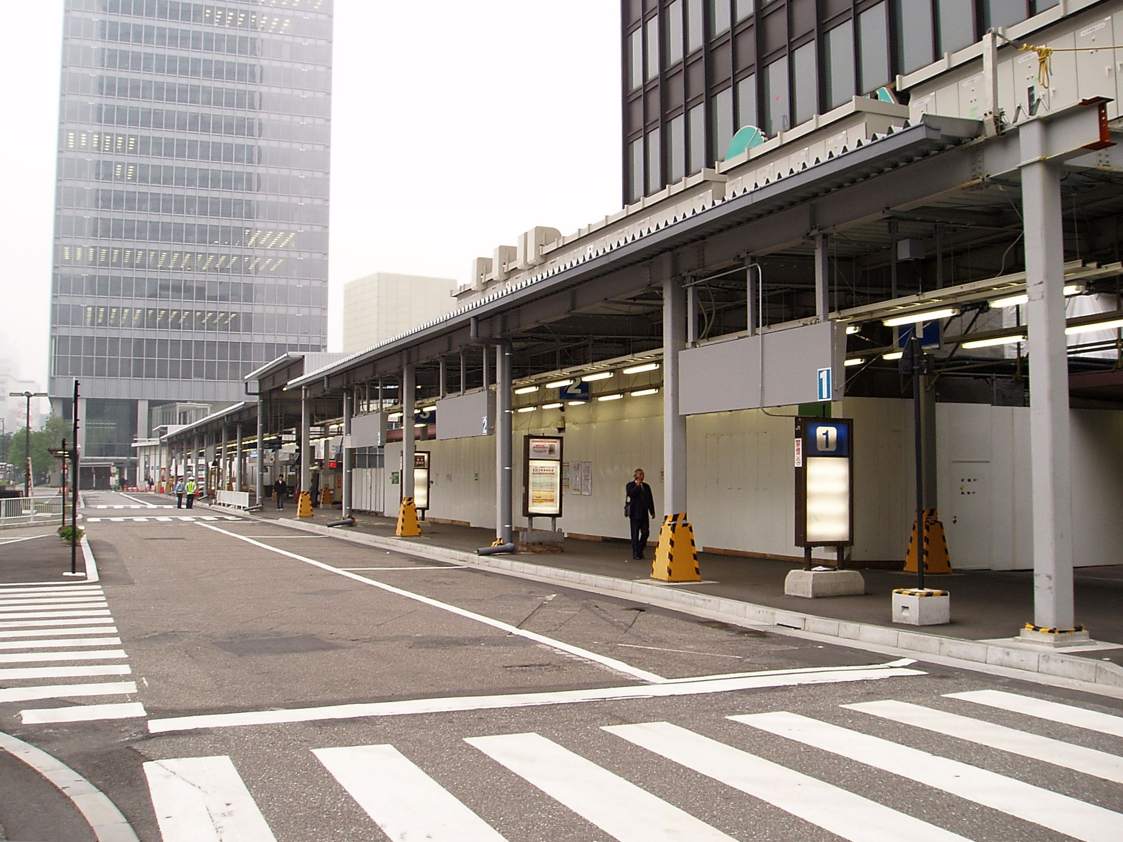 JR Bus Tokyo Sta